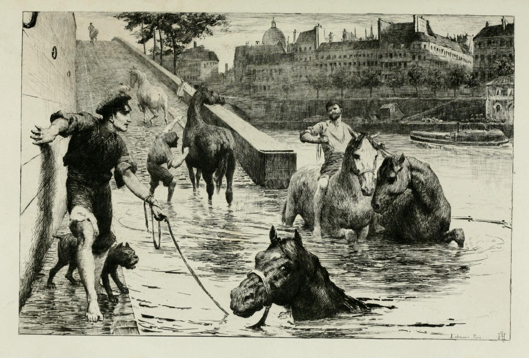 L'Abreuvoir aux chevaux, la Seine, etching, dim.: 15.6 x 23.4 cm (folio with margins).